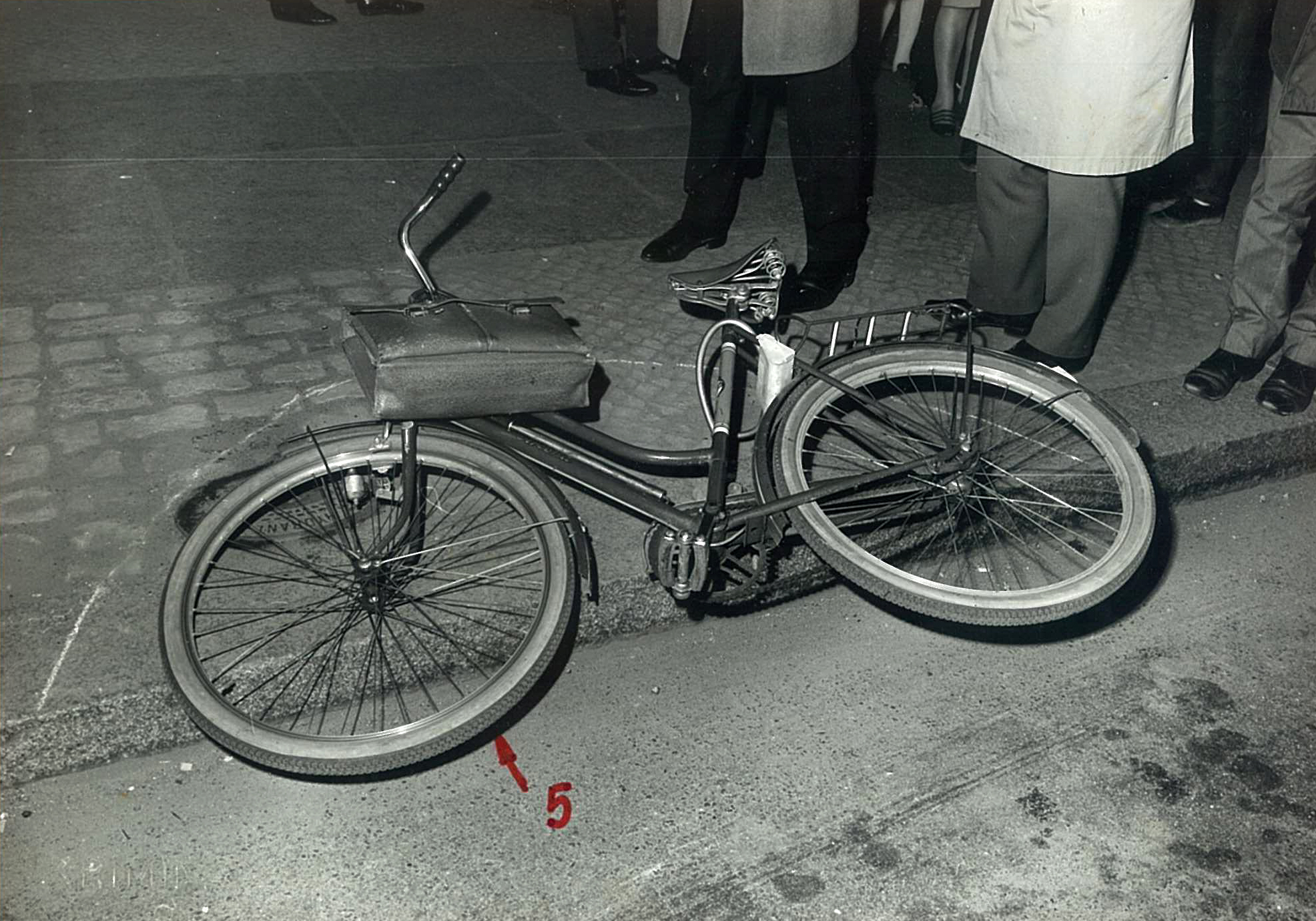 Bike of Rudi Dutschke